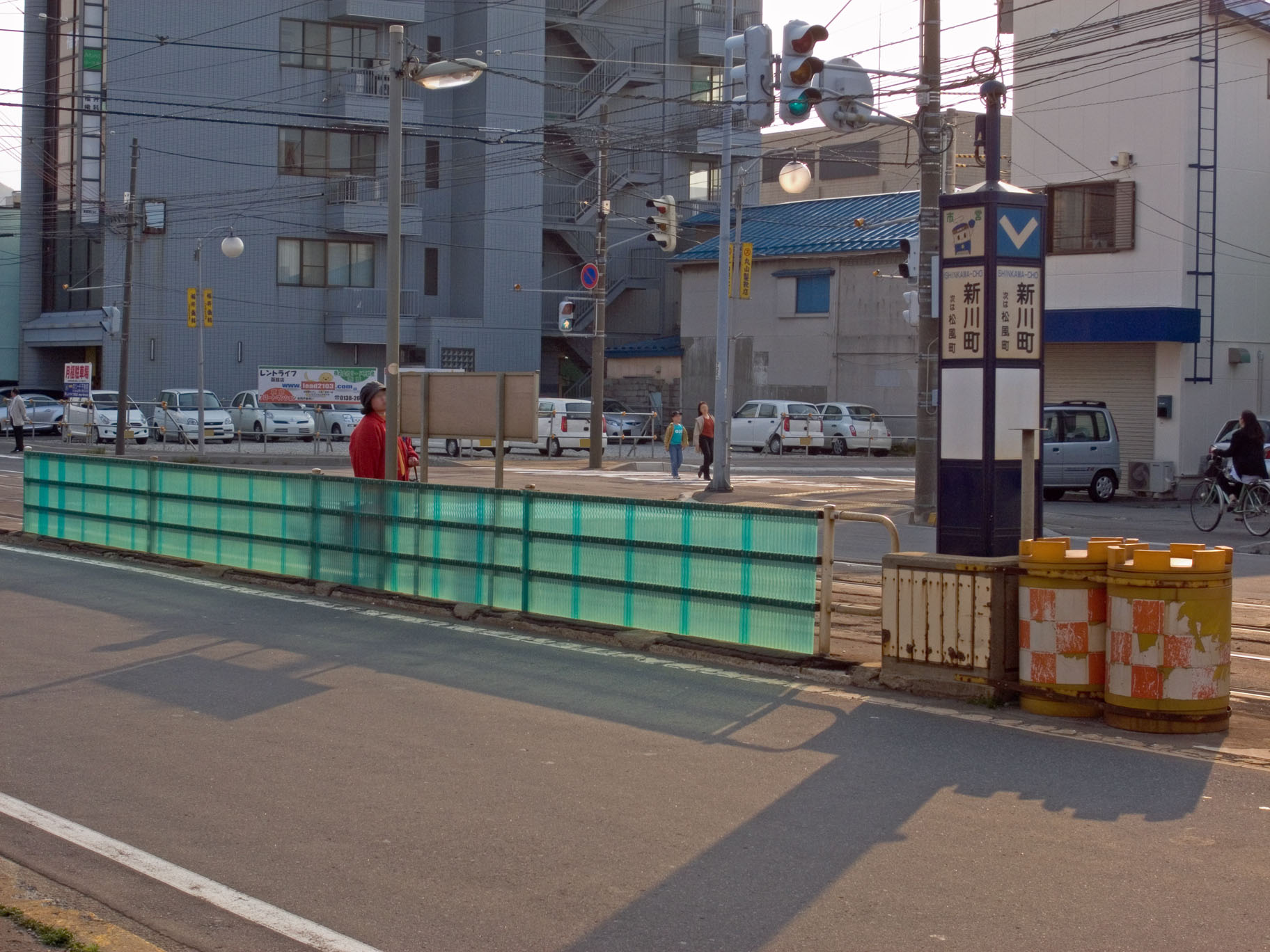 Shinkawacho station in Hakodate tram, Hokkaido, Japan